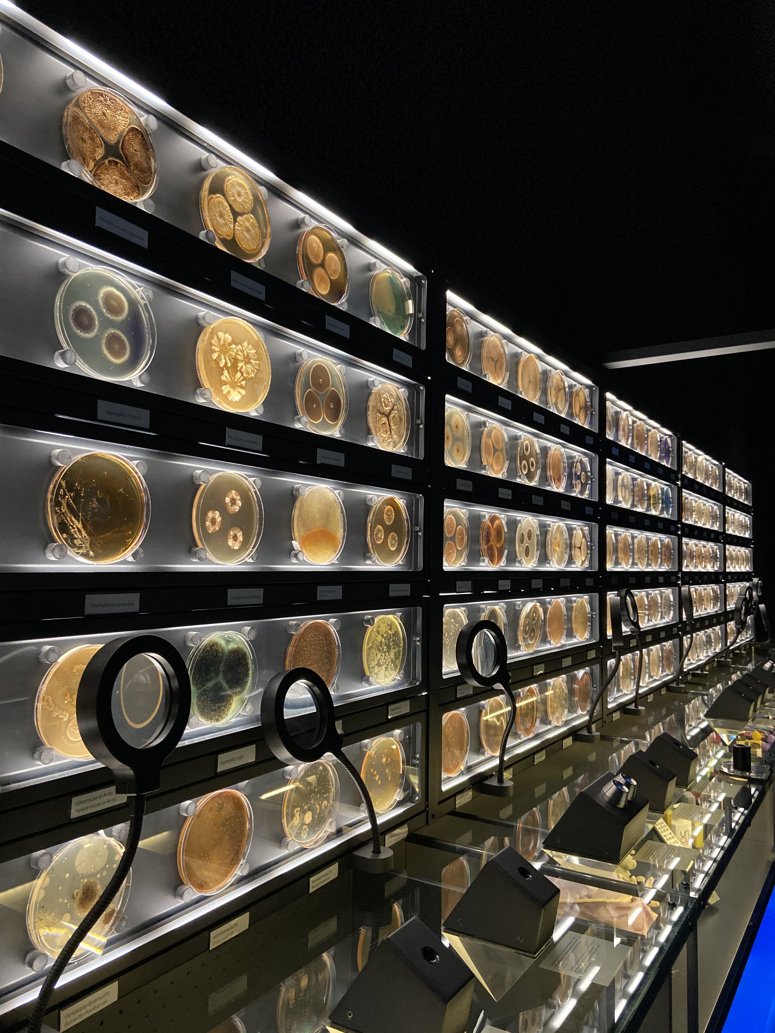 Différents types de gélose